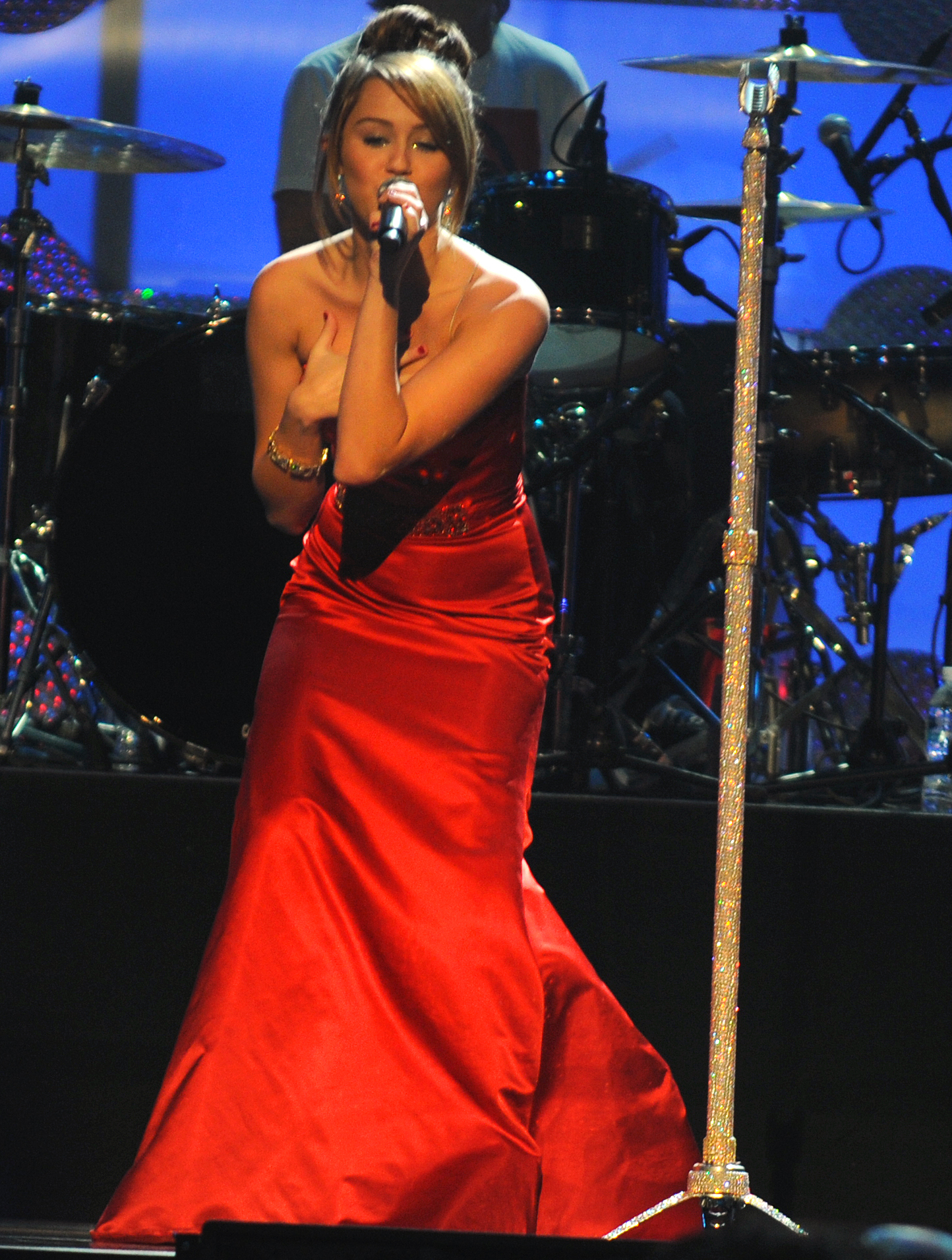 Miley Cyrus performs at the “Kids Inaugural: We Are the Future” concert at the Verizon Center in downtown Washington, D.C., Jan. 19, 2009.